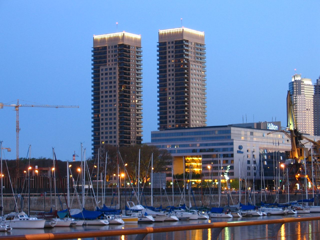 Puerto Madero, Buenos Aires, Argentina. The author granted a GFDL license as requested by User:Barcex.